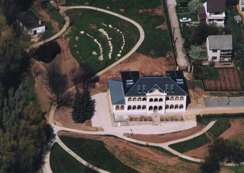 Csopak, Hungary, aerial photography